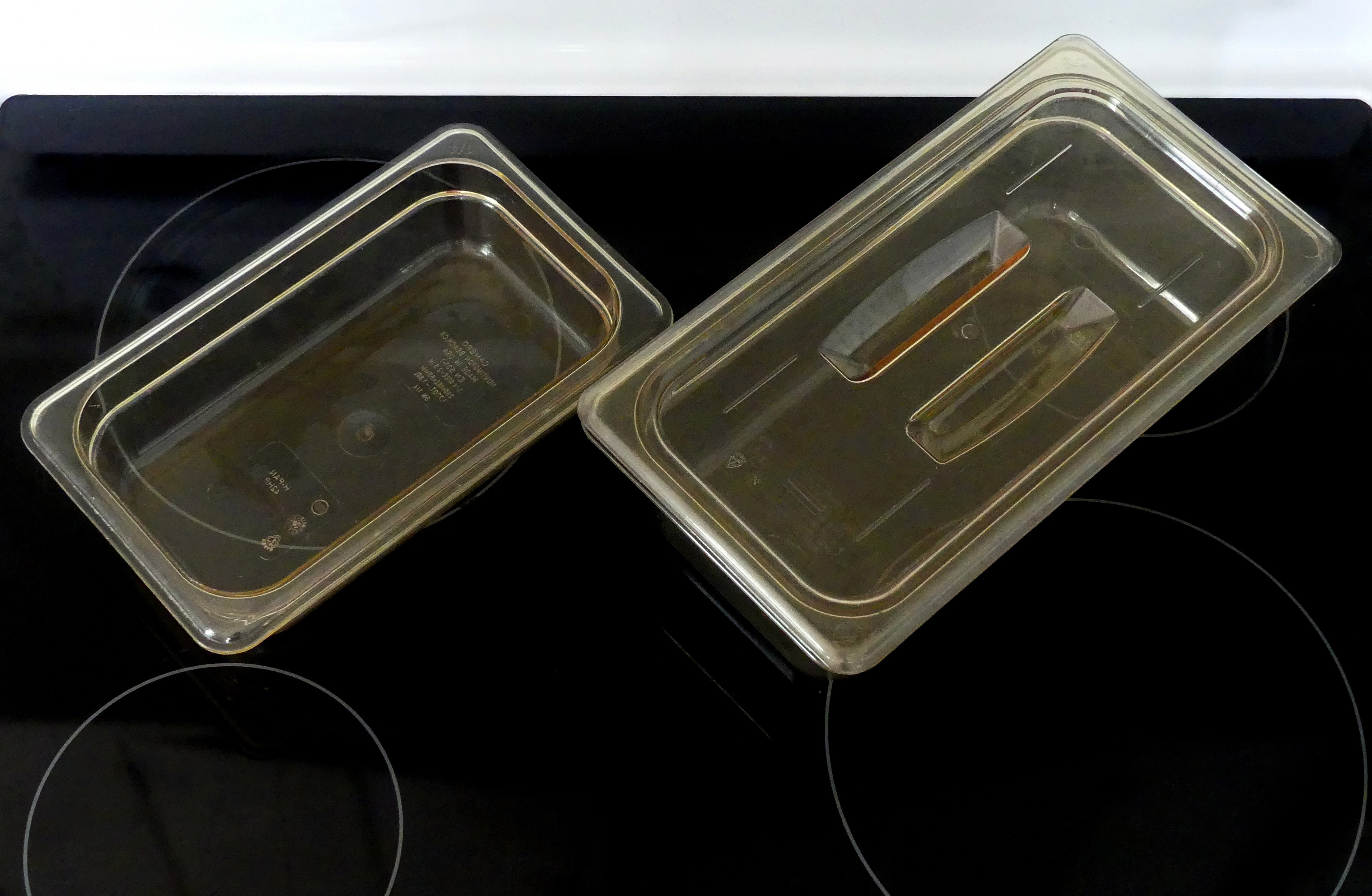 These food pans are made of polysulfone for use by the food service industry and consumers. Polysulfone is chosen for the wide working temperature range -40°C to 190°C permitting the pans to go from the freezer directly to the steam table or microwave oven. The amber colour is the natural colour of polysulfone. Pictured are Gastronorm 1/4 size (left) and 1/3 size (with lid).